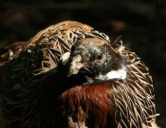 Koklass Pheasant